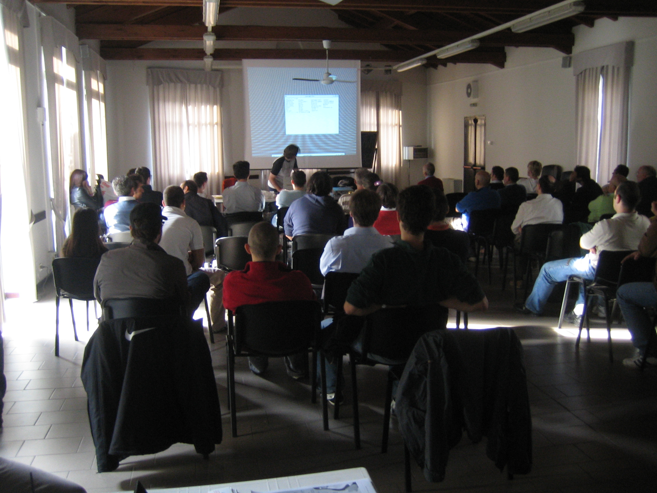 A Speech from a Linux Day in Italy